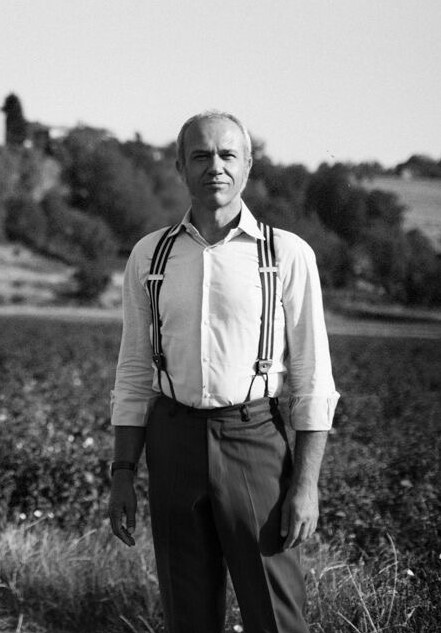 CEO of MUTTI SPA